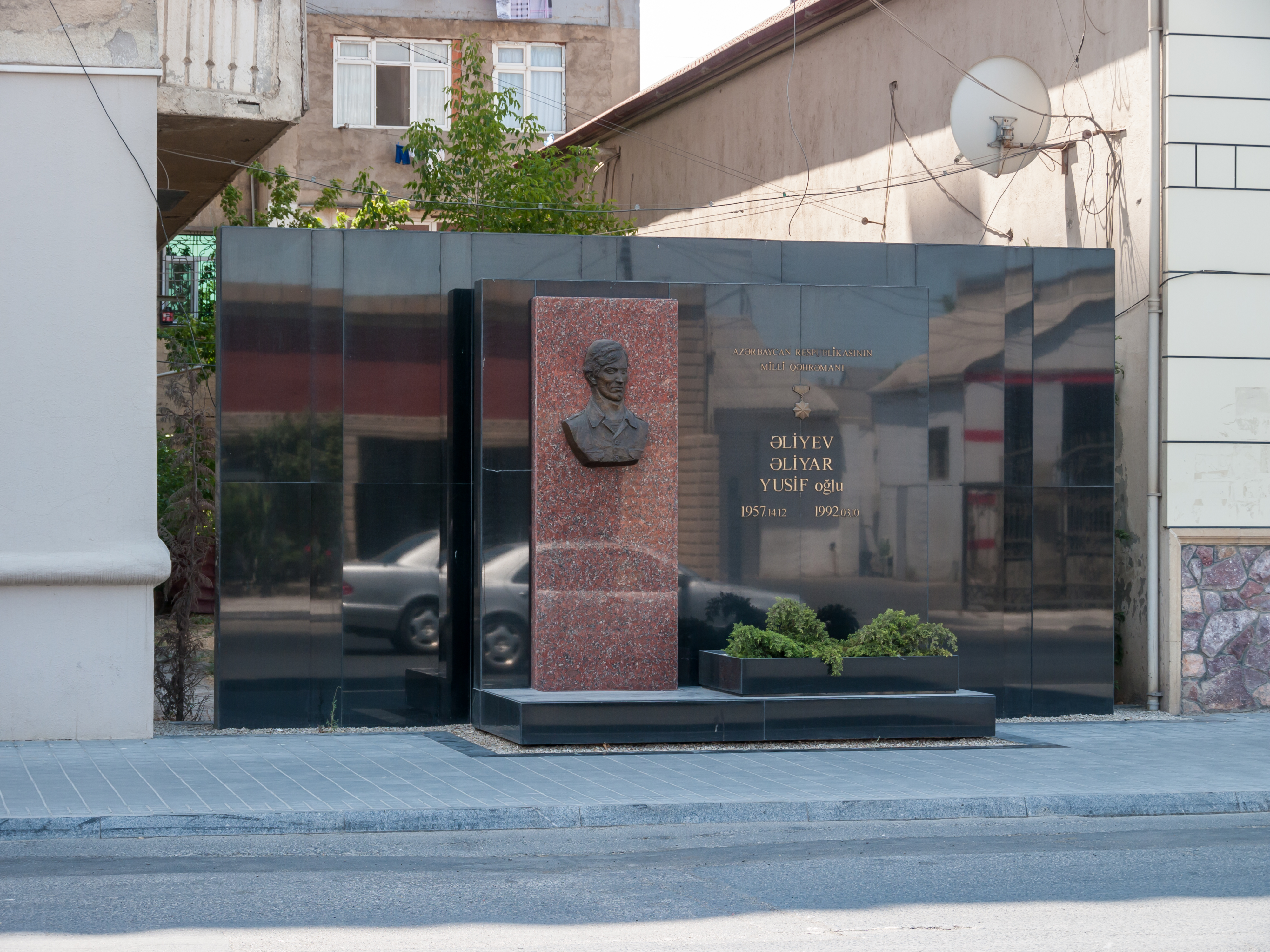 Monument to Aliyev Aliyar in Narimanov raion, Baku